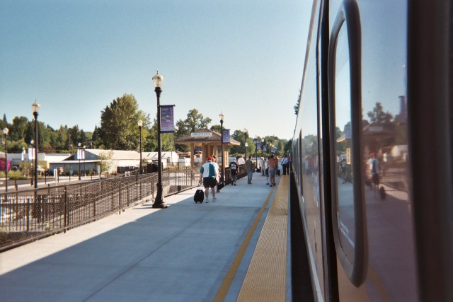 The Oregon City Amtrak station with its platform as taken from an Amtrak Talgo train heading toward Eugene